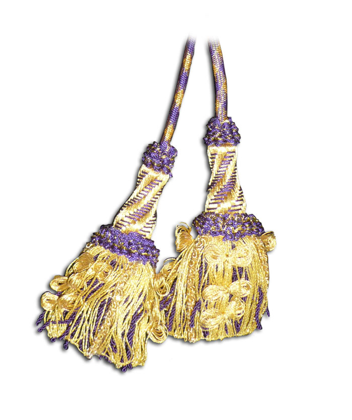 Girdle